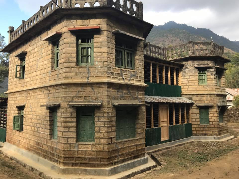 This picture has been taken by the Author, Anil Nembang when visited with Karmendra Bikram Nembang